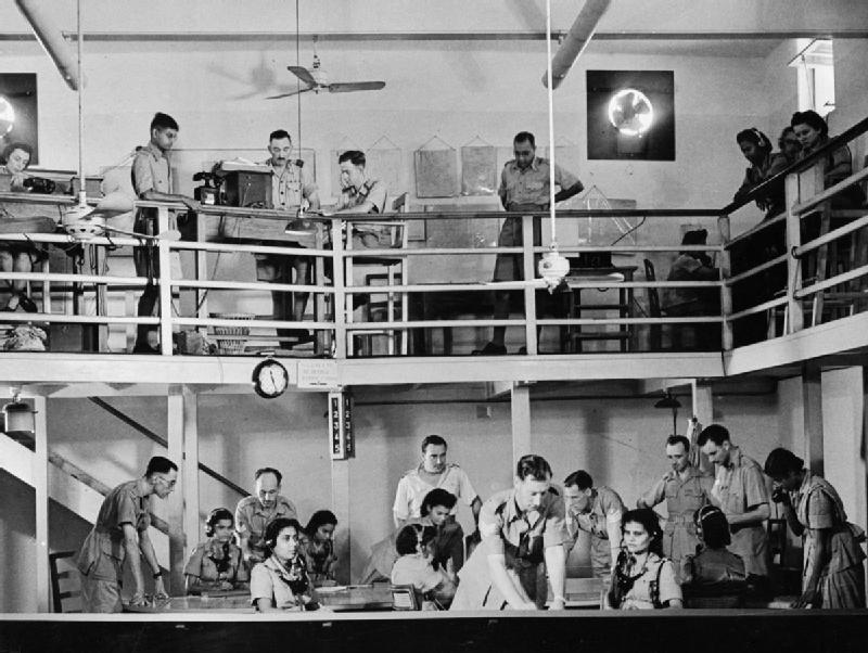 Royal Air Force Operations in the Far East, 1941-1945. Personnel of the RAF, Indian Air Force and Womens' Auxiliary Corps (India) at work in the Operations Room at a Group Headquarters in North-eastern India.